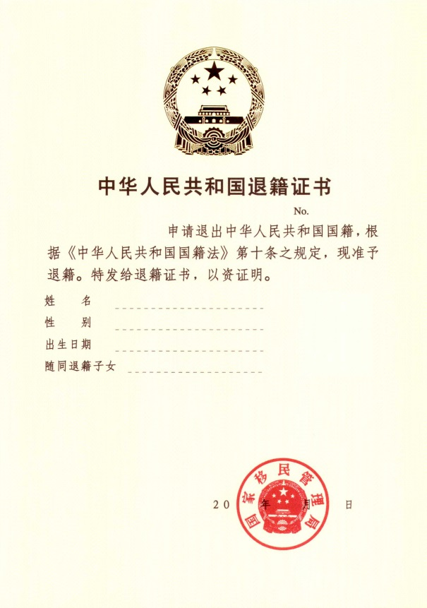 Termination of nationality certificate of the PRC sample 中文（中国大陆）: 中华人民共和国退籍证书样本